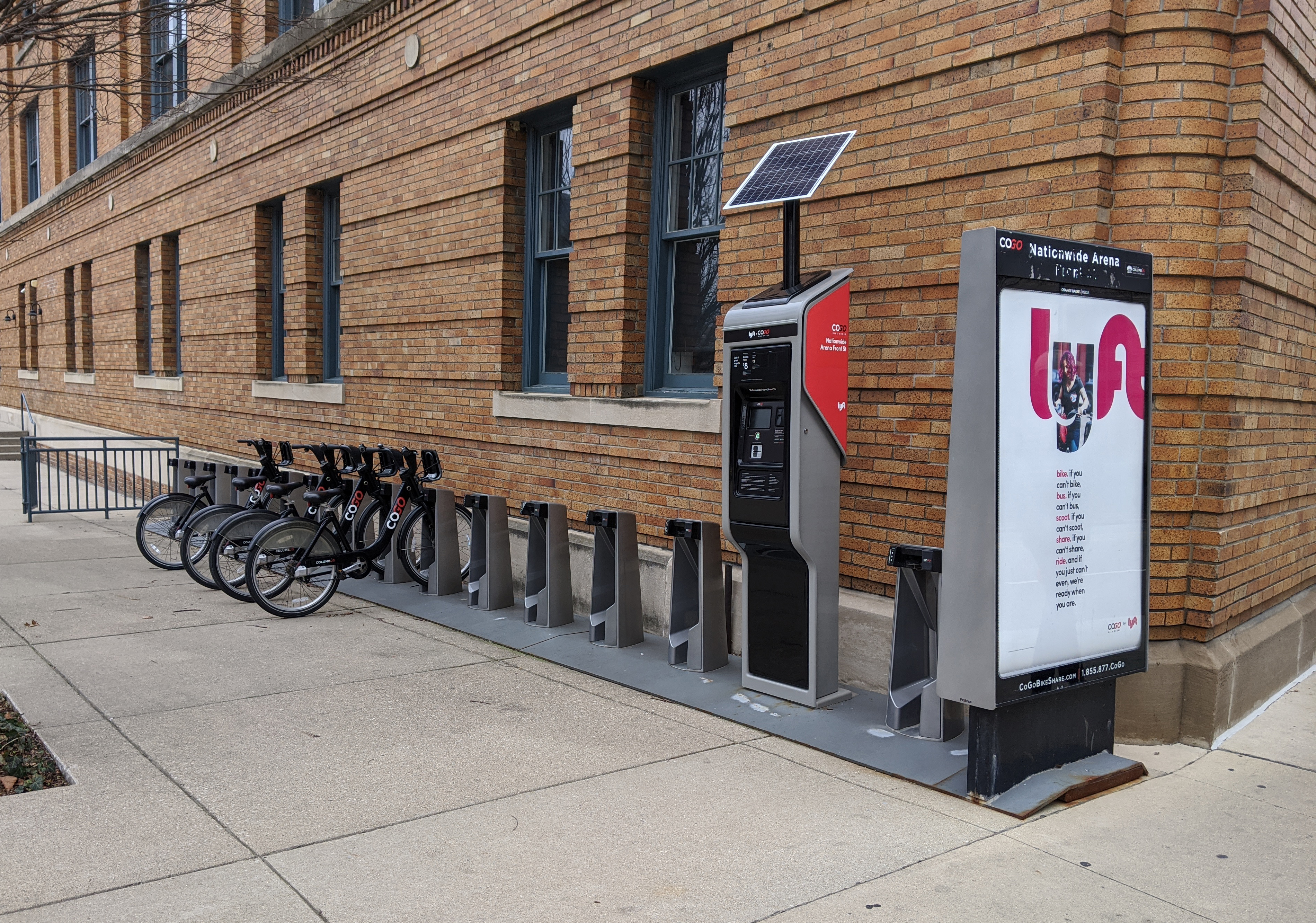 CoGo bikeshare, taken in downtown Columbus, Ohio.